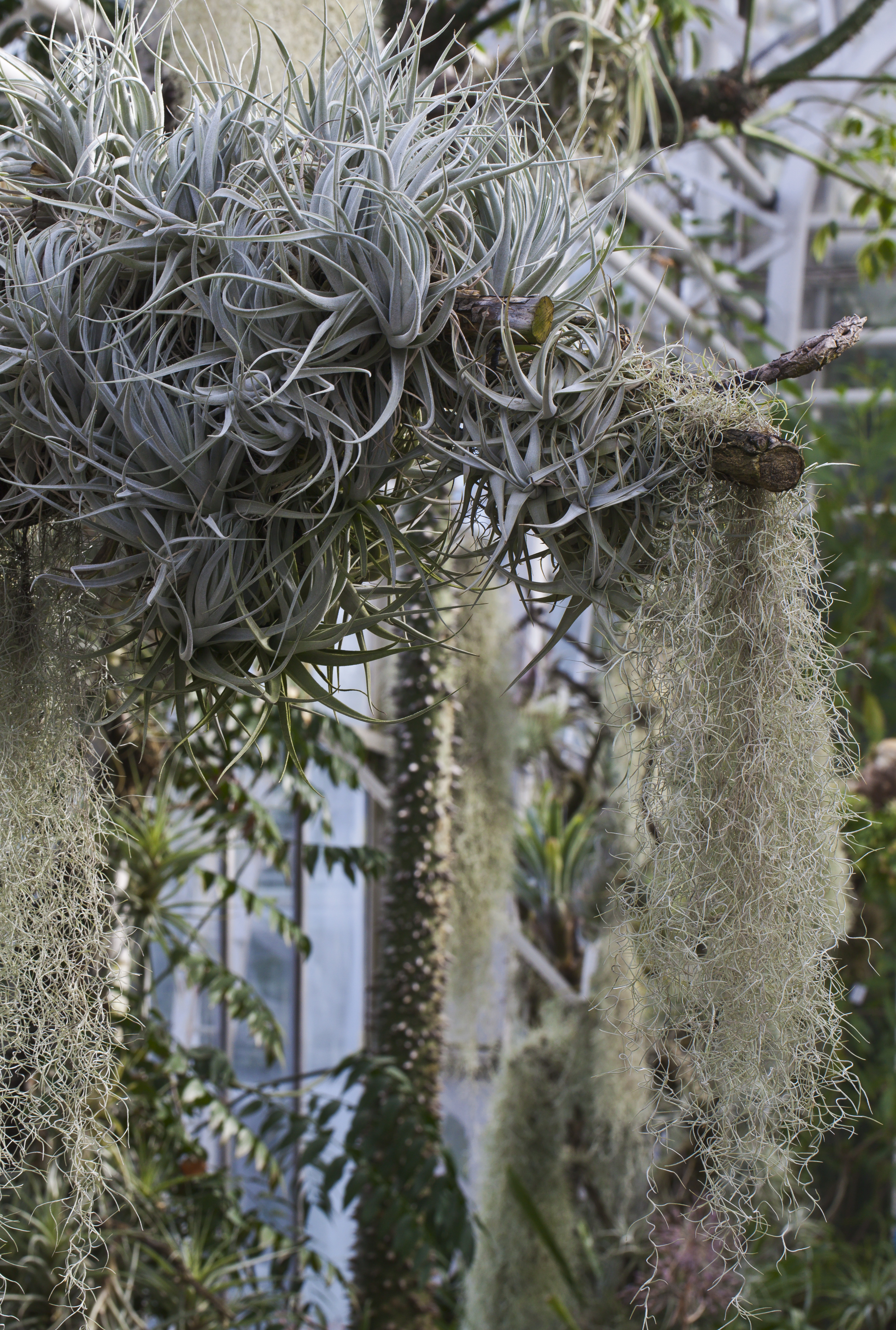 Munich Botanic Garden, Germany